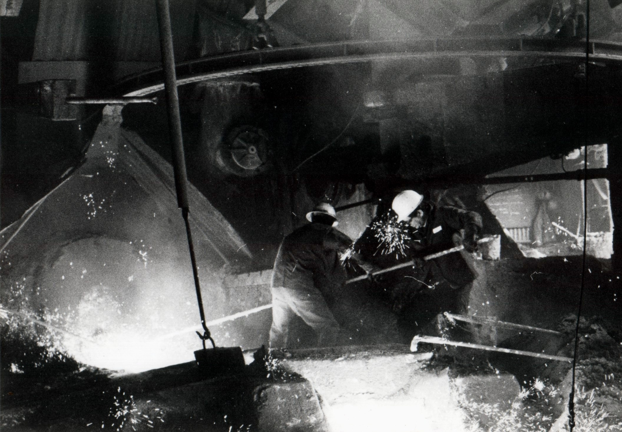 Steel workers at a blast furnace in La Providence, Réhon (France), 1978.